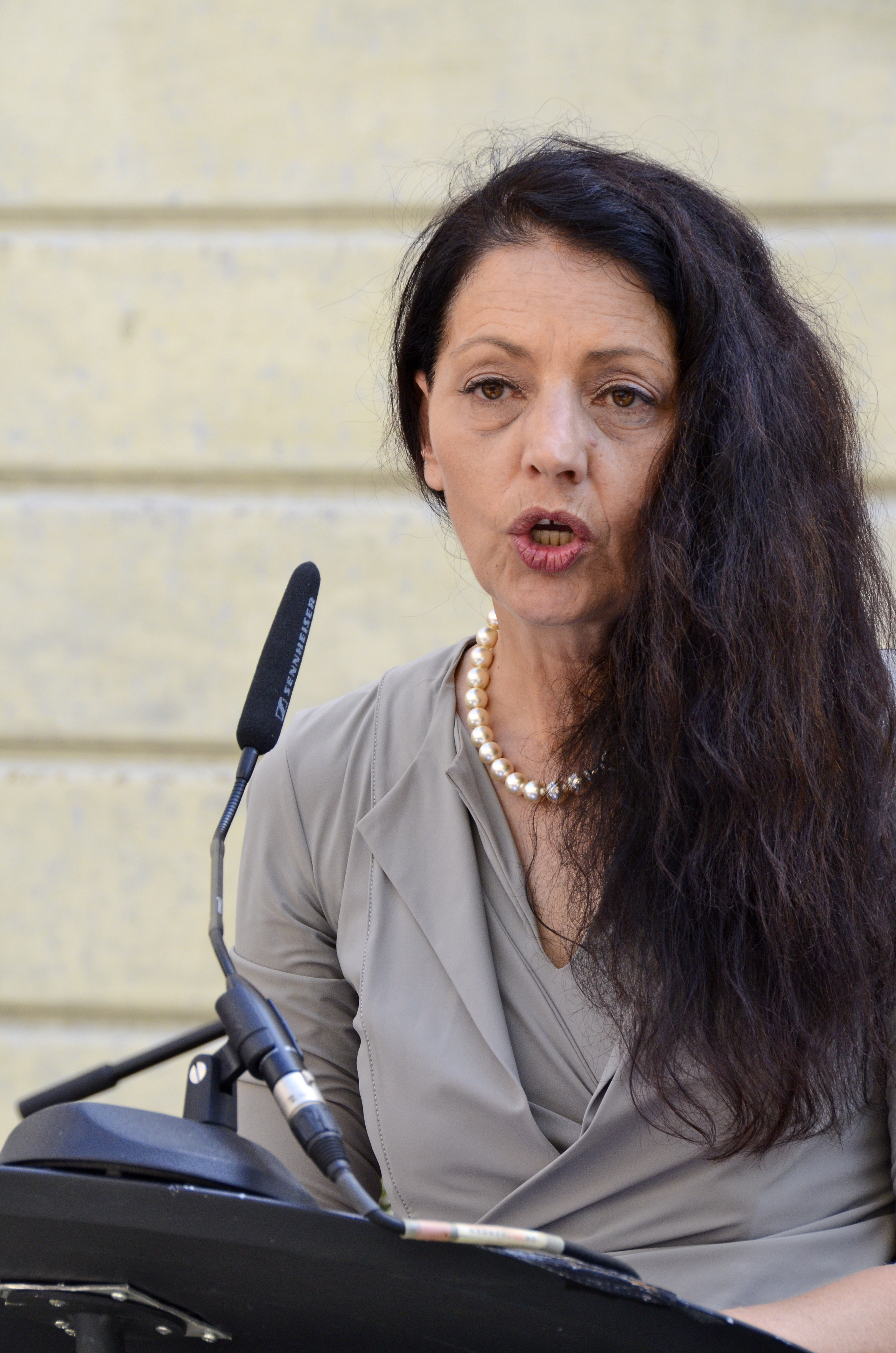 Klagenfurt city councillor Sieglinde Trannacher (SPÖ) during a speech at the Landhaushof, city of Klagenfurt, Carinthia / Austria / EU